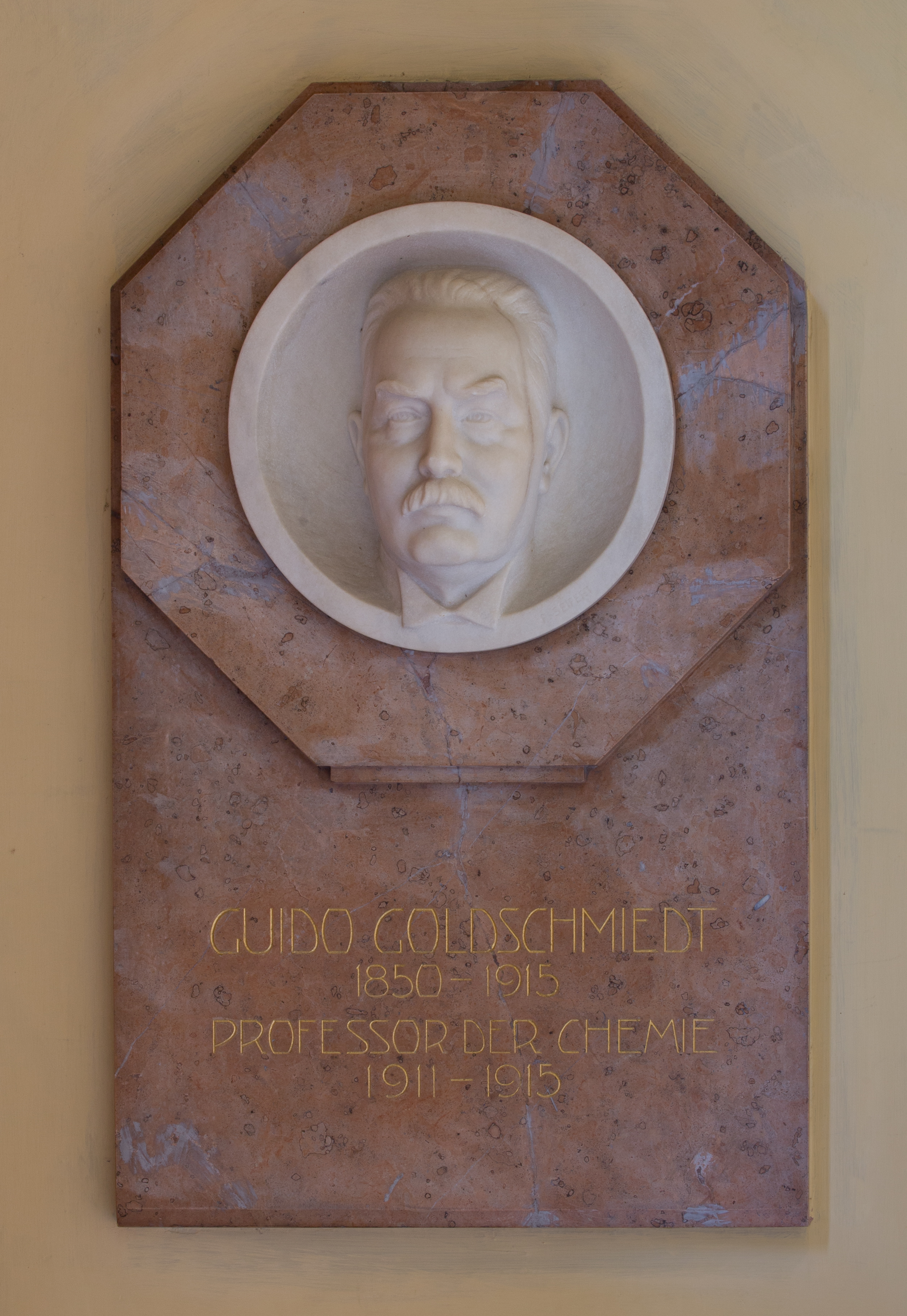 Guido Goldschmiedt (1850-1915), halfrelief (marble) in the Arkadenhof of the University of Vienna, (Maisel# 62). Artist: Franz Seifert, (1866-1951), unveiled 1923